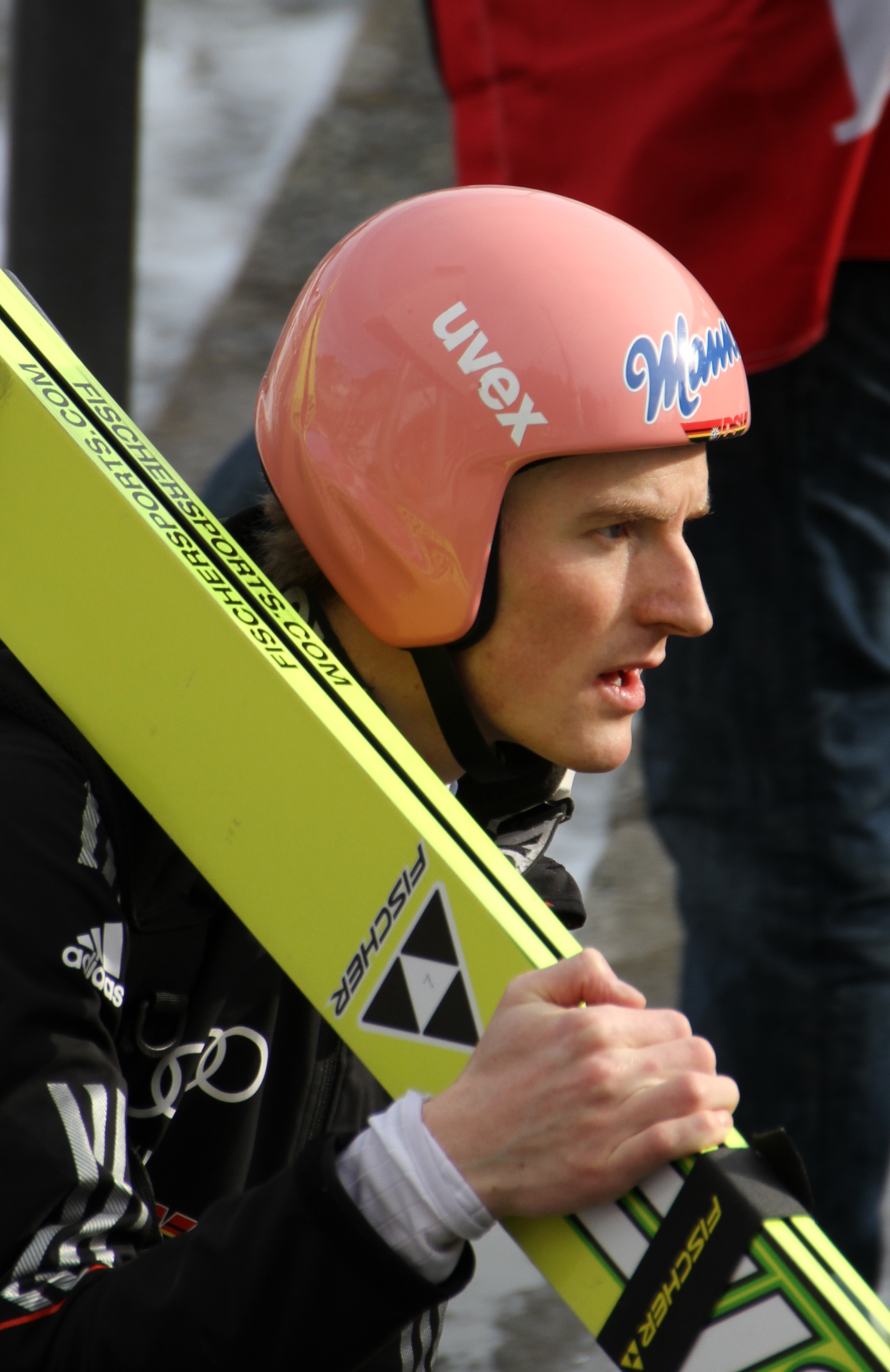 Holmenkollen, Oslo. FIS World Cup Ski Jumping, first round. March 11, 2012. This was the third last WC tournament of the season.